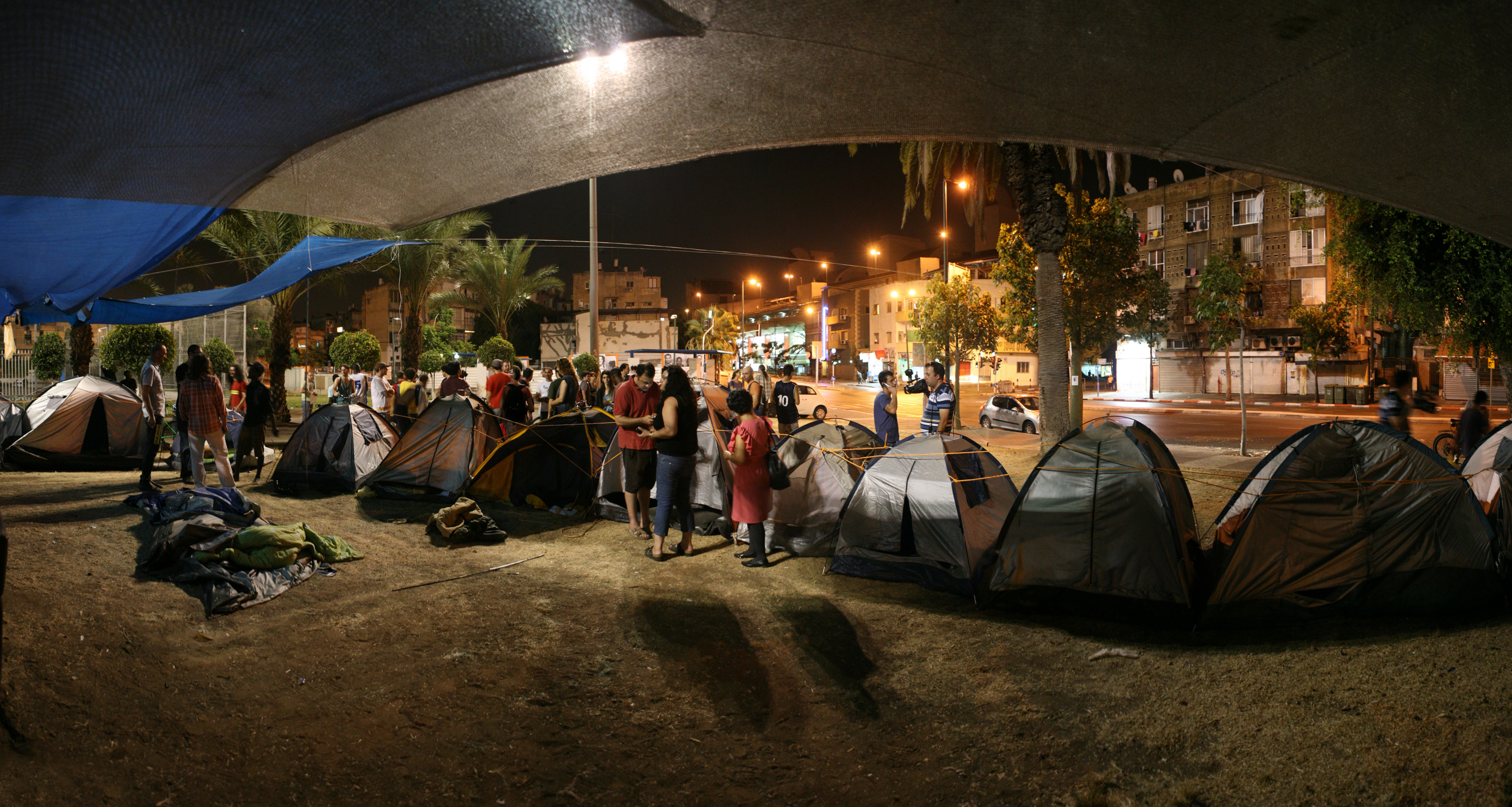 Protest encampment for social justice in Lewinsky's garden in the south of Tel Aviv (The Central Bus Station in the background). This camp is part of the big protest movement that operated in Israel in the summer of 2011.